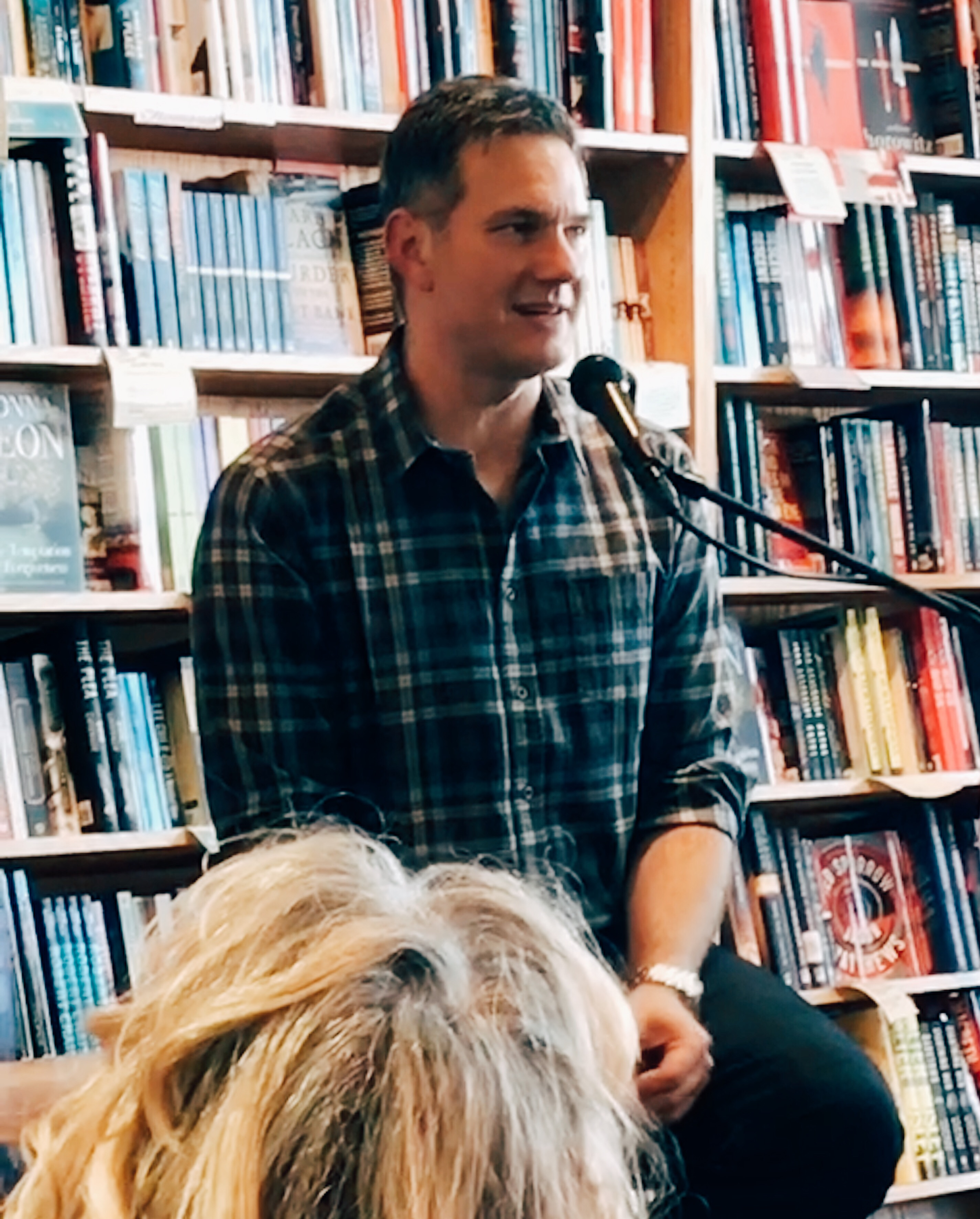 Author Jon Michael Varese at Book Passage in San Francisco, on July 25, 2018.